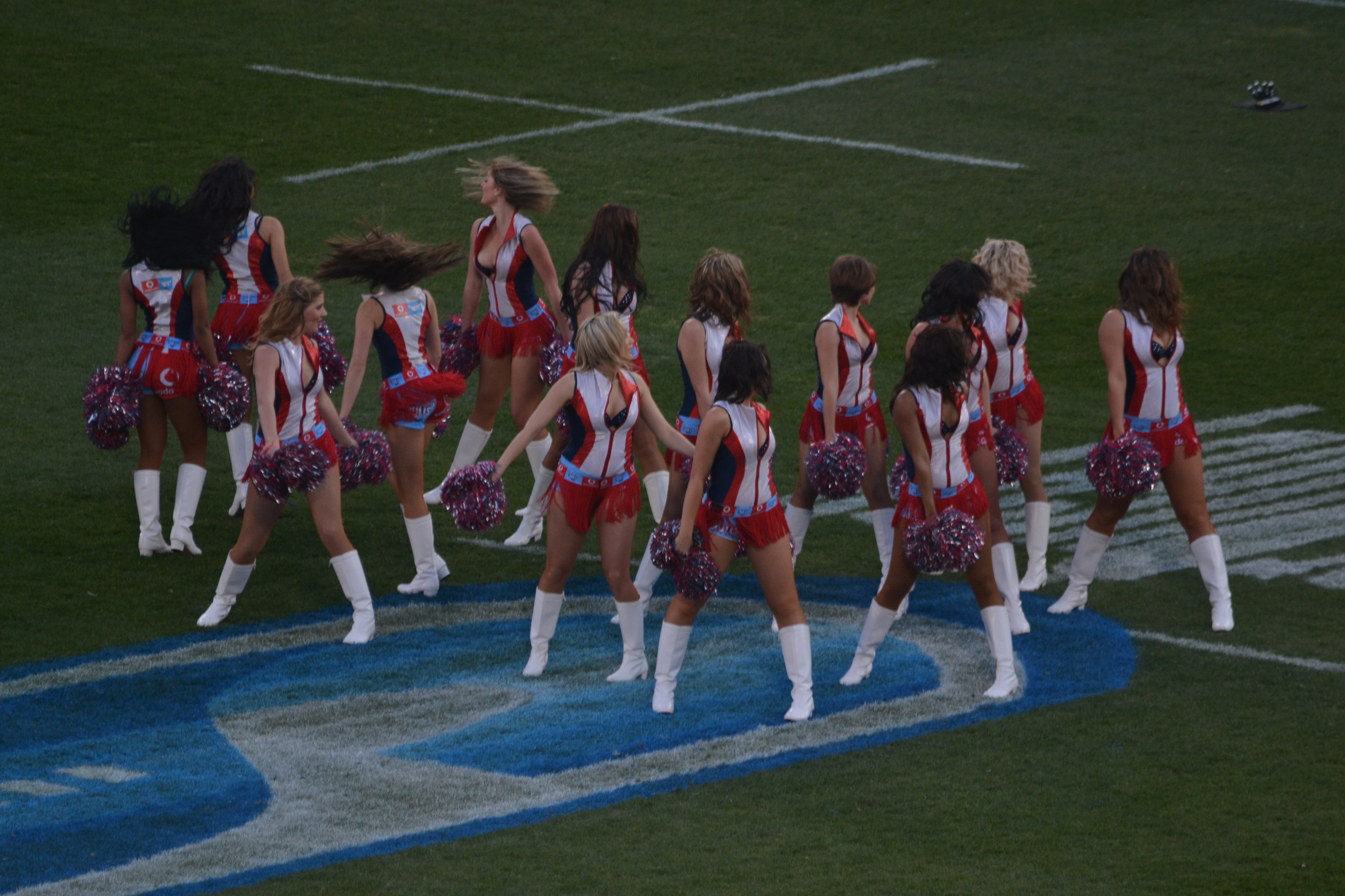 The Vodacom Bulls team to face the Brumbies